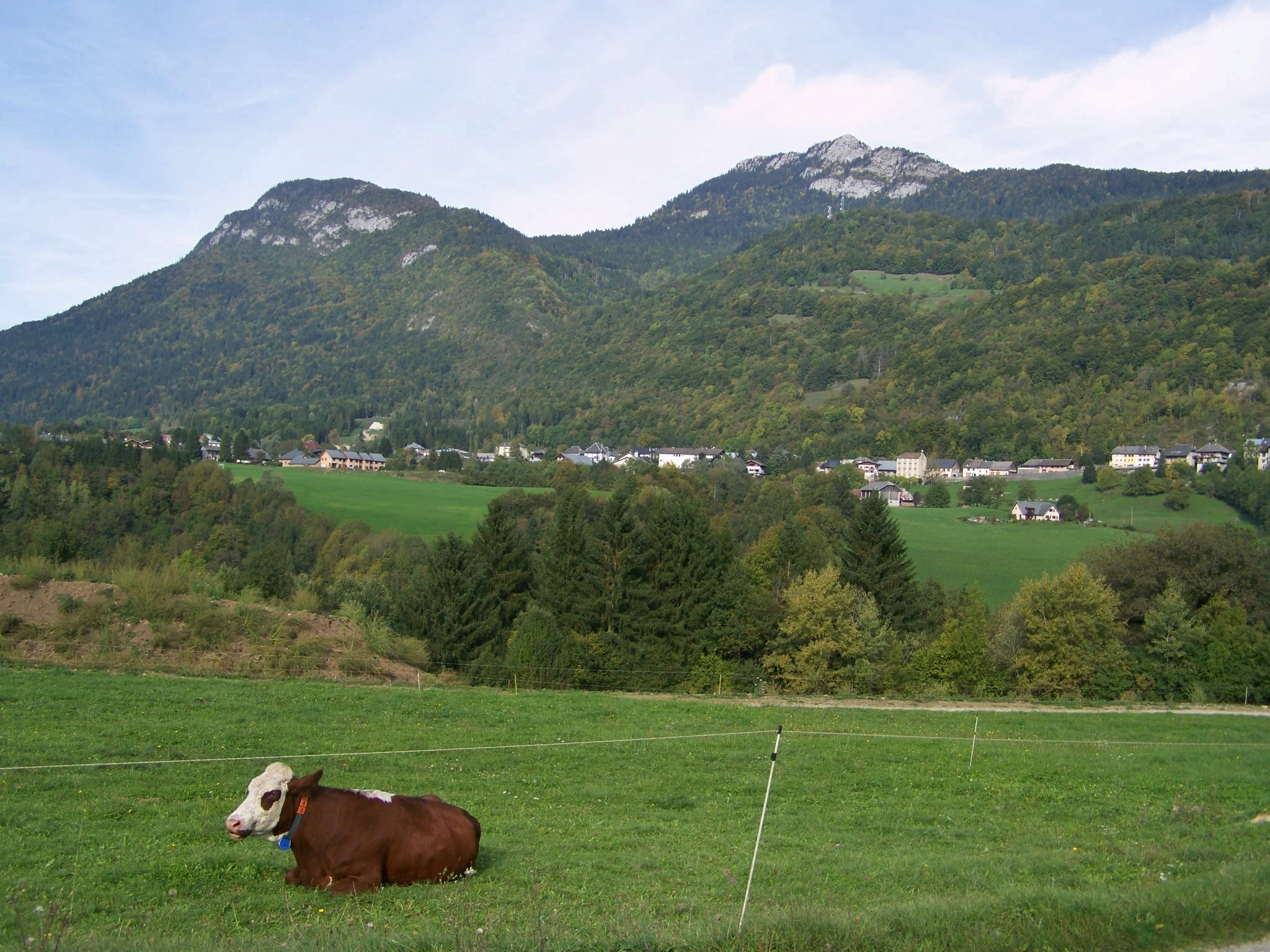 Sight of the French commune of Le Châtelard, in Savoie.